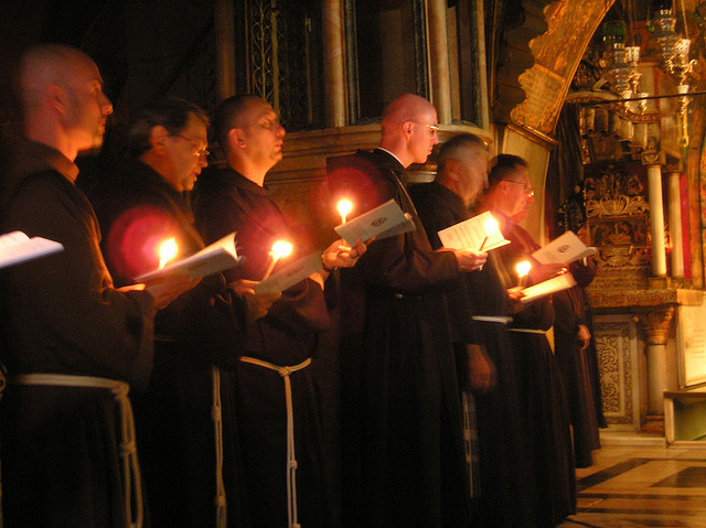 Catholic monks during the procession in the Holy Sepulchre in Jerusalem, Old City